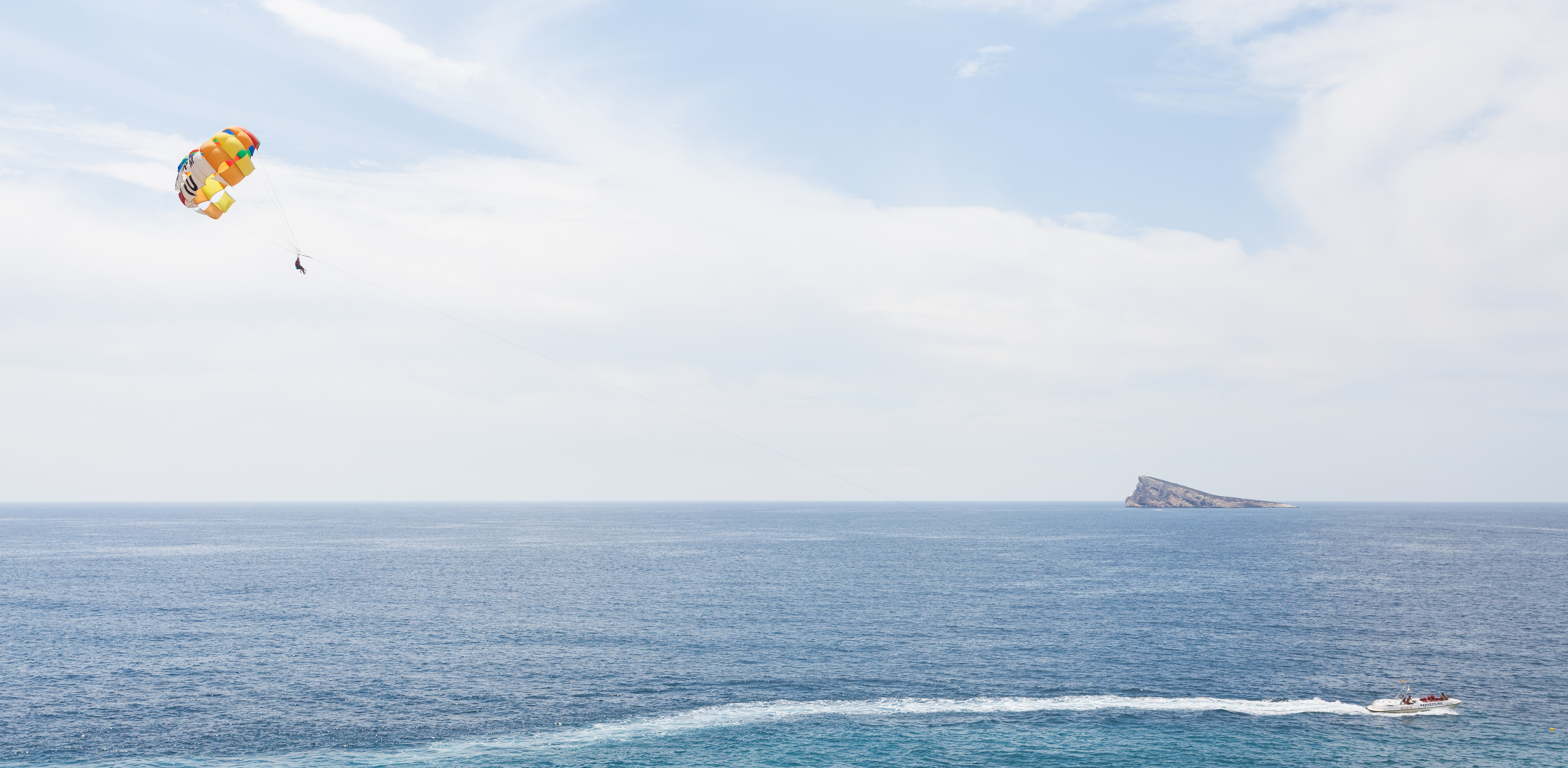 Benidorm Island, Spain